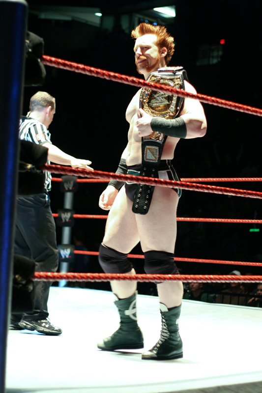 Sheamus as the first WWE Champion from Ireland